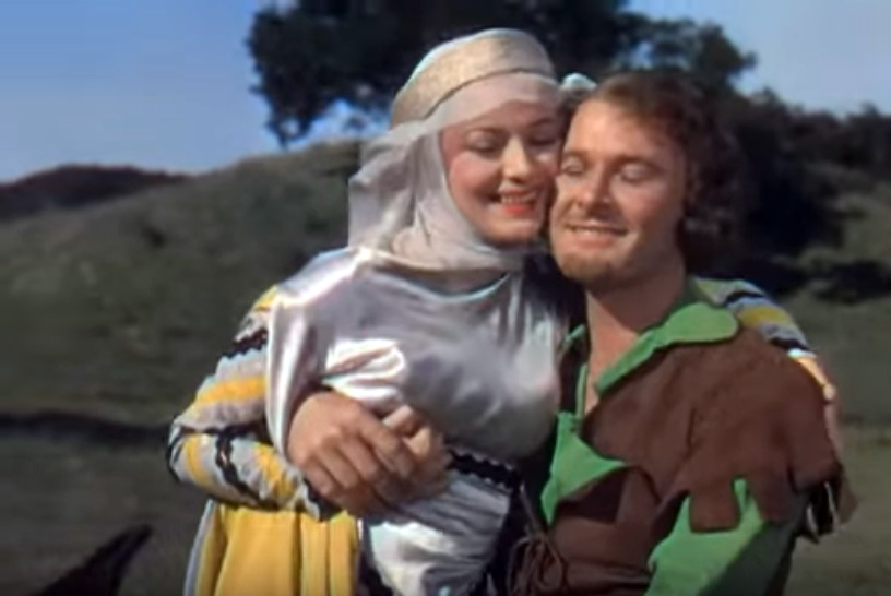 Olivia de Havilland and Errol Flynn from the original trailer for The Adventures of Robin Hood, 1938